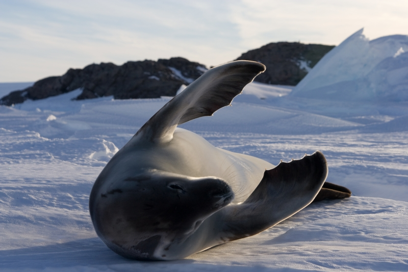 Crabeater Seal